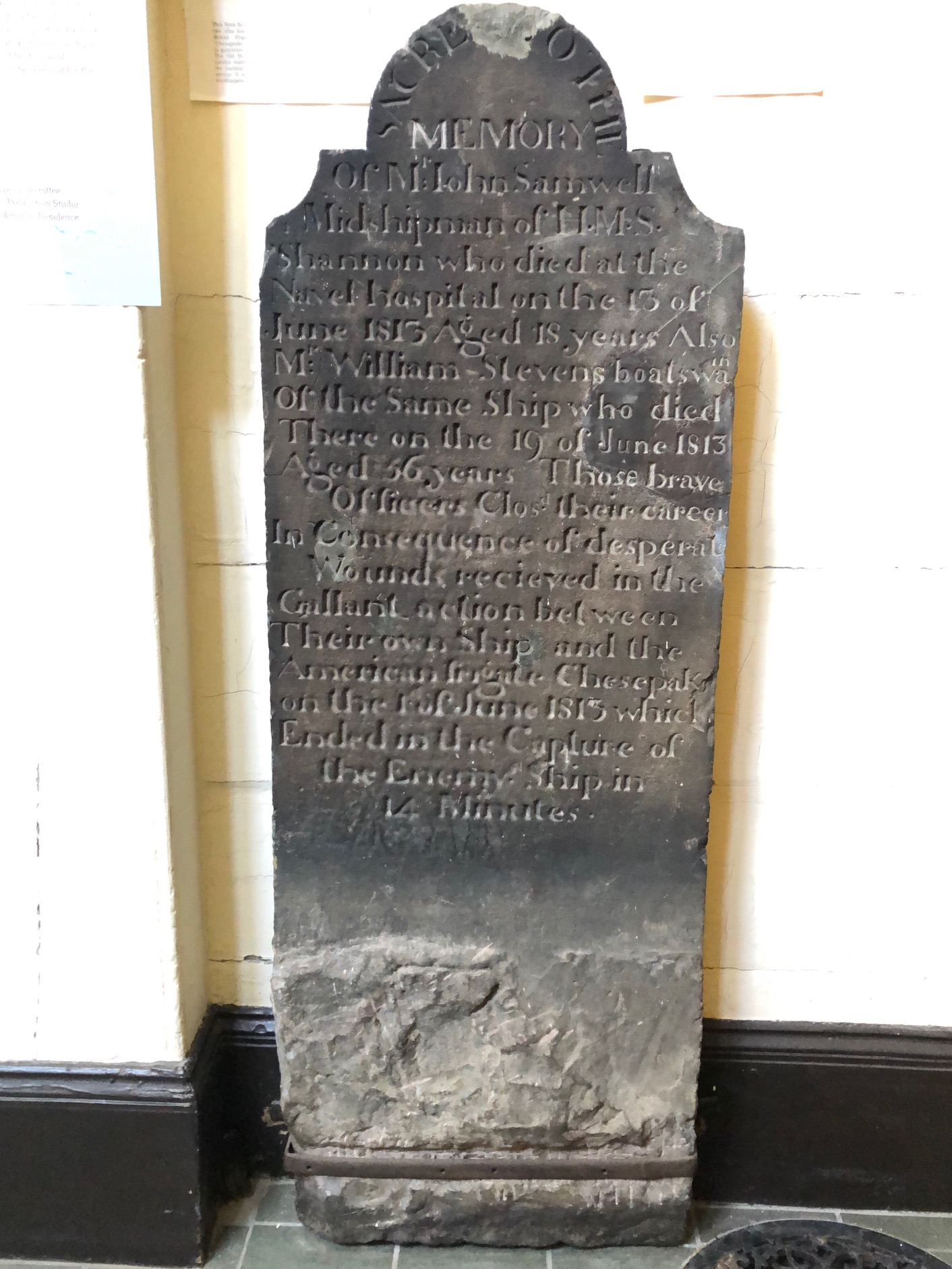 Gravestone, HMS Shannon, 1813, St. Paul's Church, Halifax, Nova Scotia Gravestone of John Samwell (d. 13 June) and William Stevens (d.18 June), both who died in the Naval Hospital.